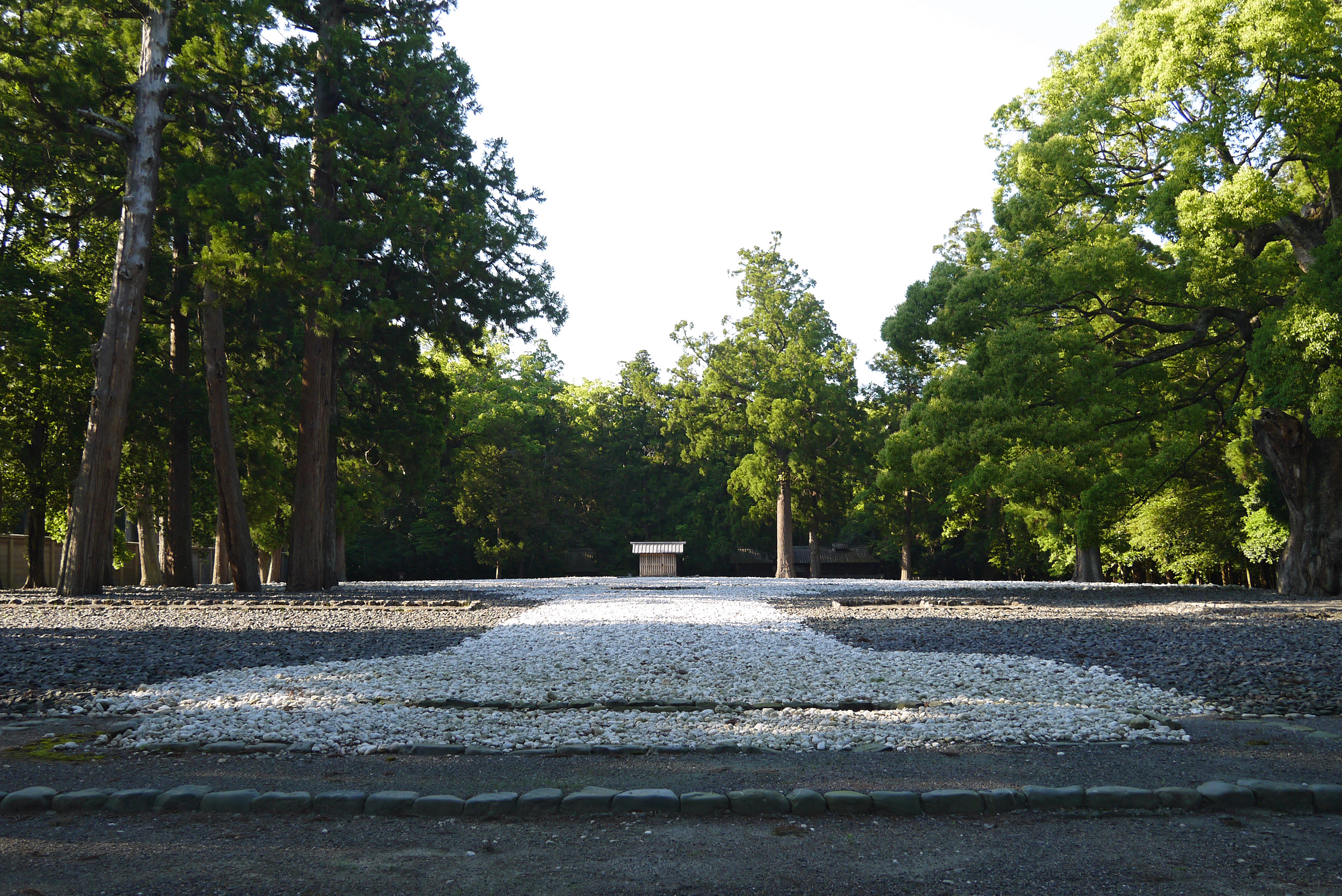 Geku, Ise-jingu Grand Shrine, Ise, Mie prefecture, Japan Panasonic Lumix DMC-GF5